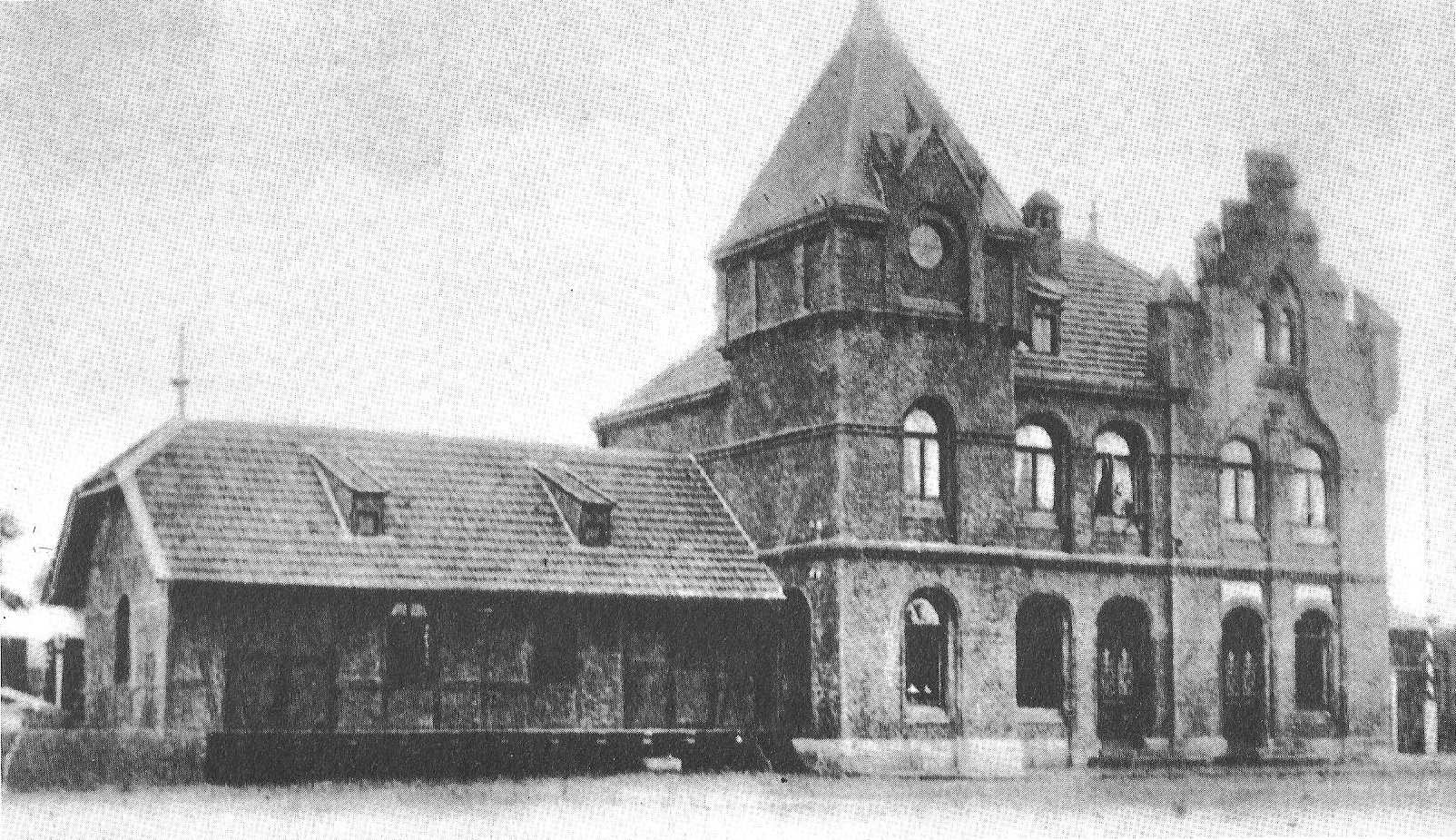 former TWE Station Guetersloh (1900-1921) at opening of the Teutoburg Forest Railway line (Teutoburger Wald-Eisenbahn)